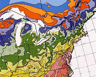 USDA Hardiness Zones in the Northeast US and Southeast Canada